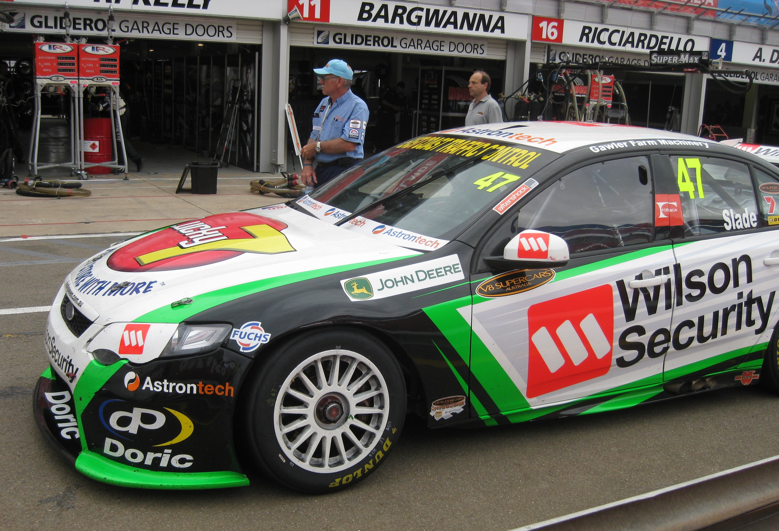 The Ford FG Falcon of Tim Slade at the 2010 Clipsal 500 Adelaide